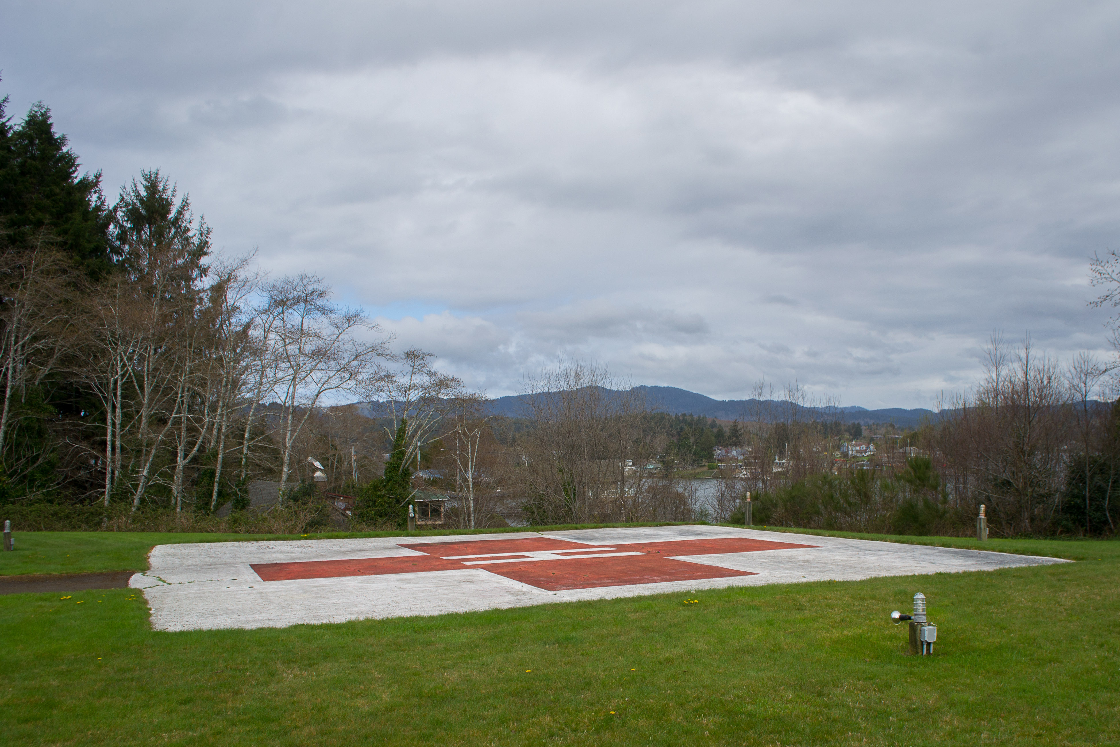 Samaritan North Lincoln Hospital Heliport